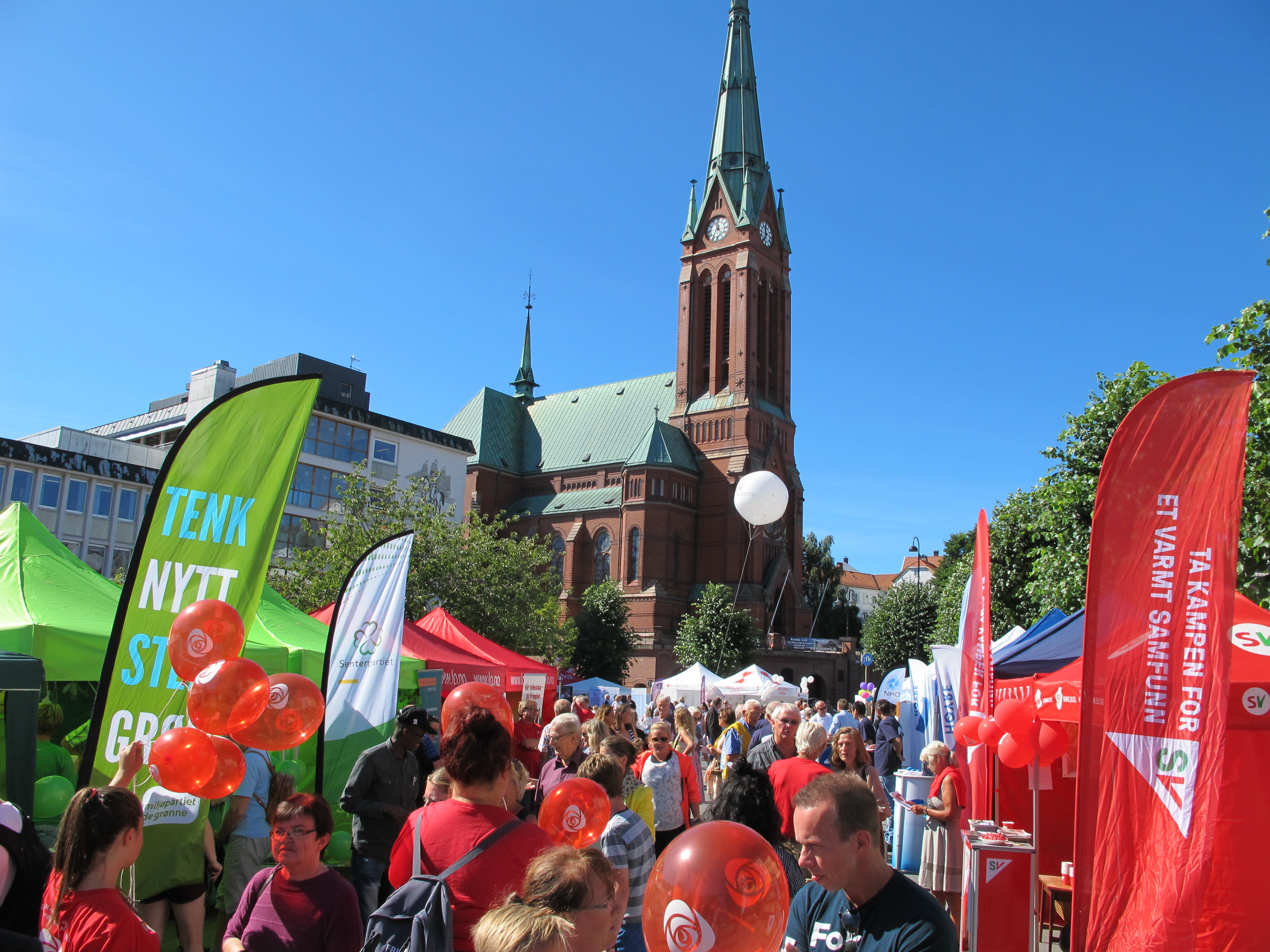 Arendalsuka 2013